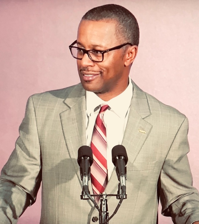 Coach Taggart while at the Florida State Univerity press conference